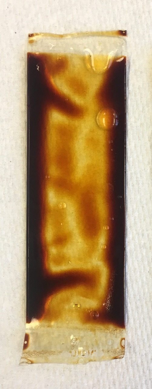 A passive sampling device for trace metals in water. This one is 7.5 centimeters x 2 centimeters and is filled with a 1:1 mixture of Kelex-100 and oleic acid.